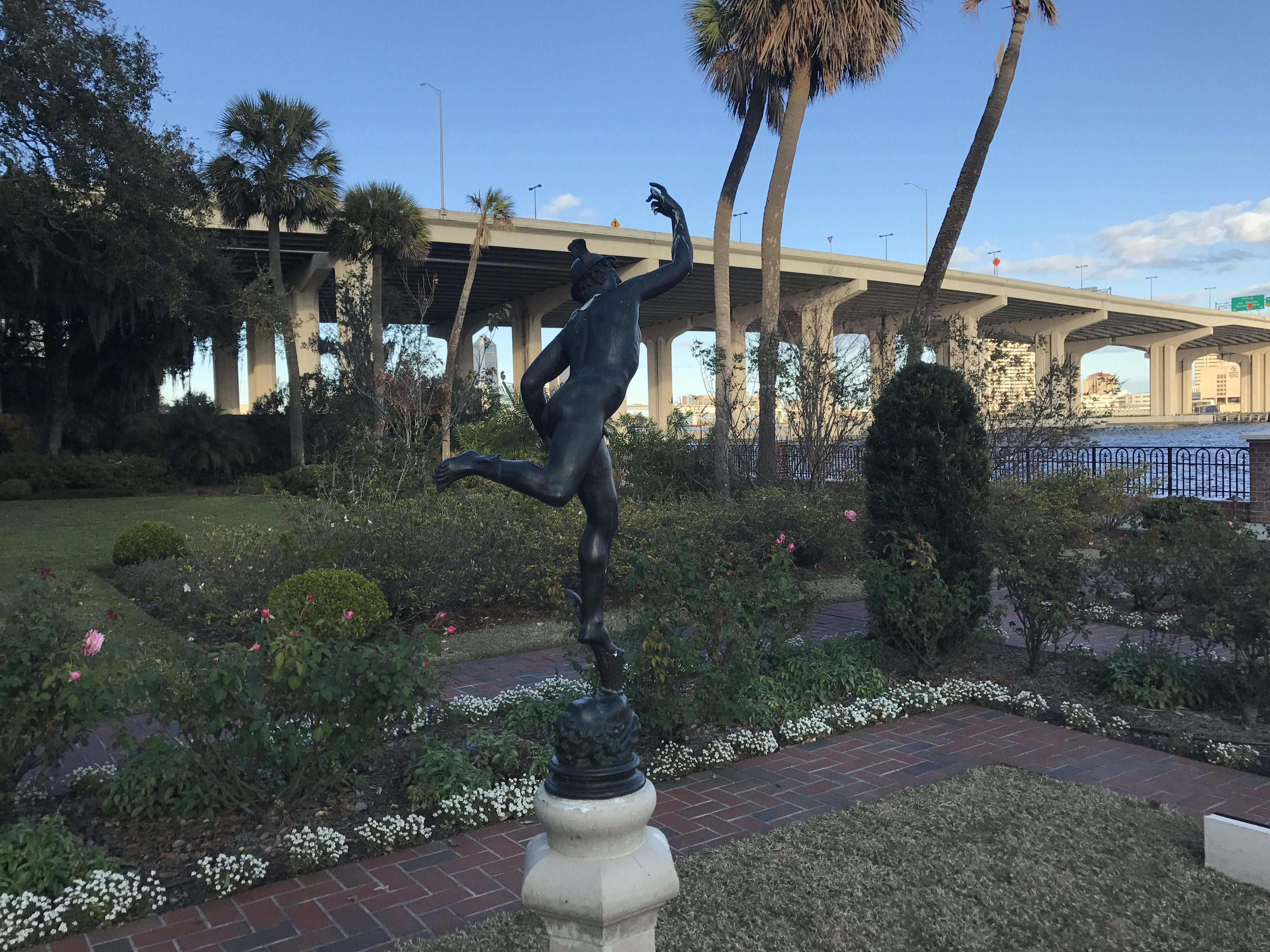 The Olmsted Garden located at the Cummer Museum in Jacksonville, Florida. Designed by William Lyman Phillips, a partner in the Olmstead Brothers firm.